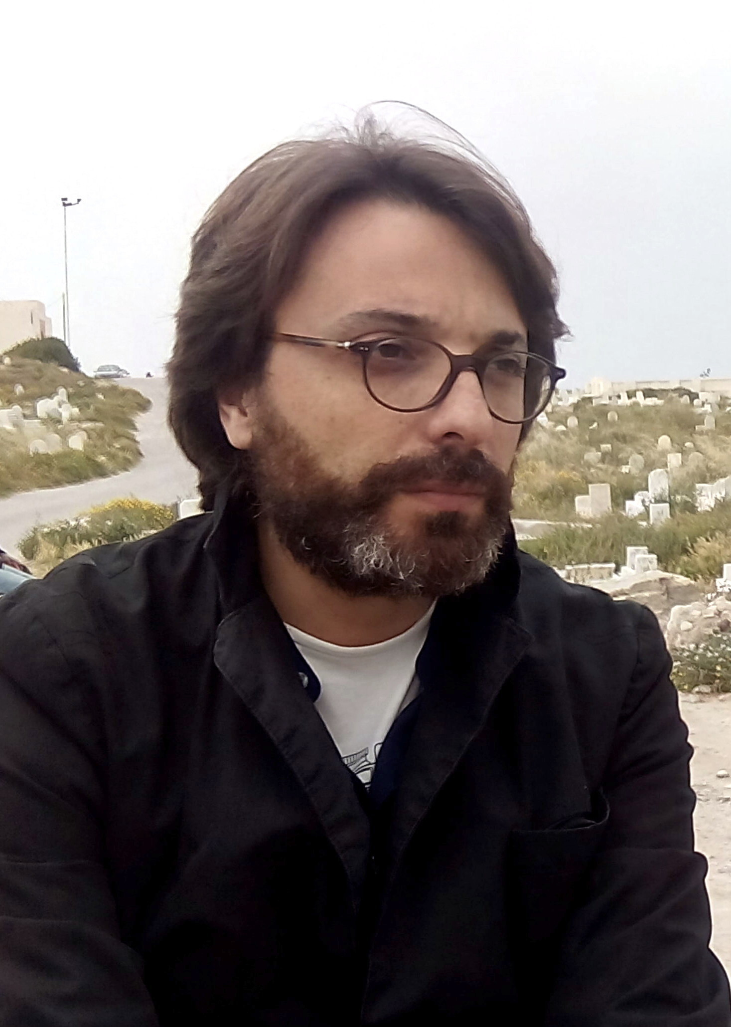 Mohamed Ben Attia at mahdia muslim cemetery in 2015 preparing his feature "Hedi".